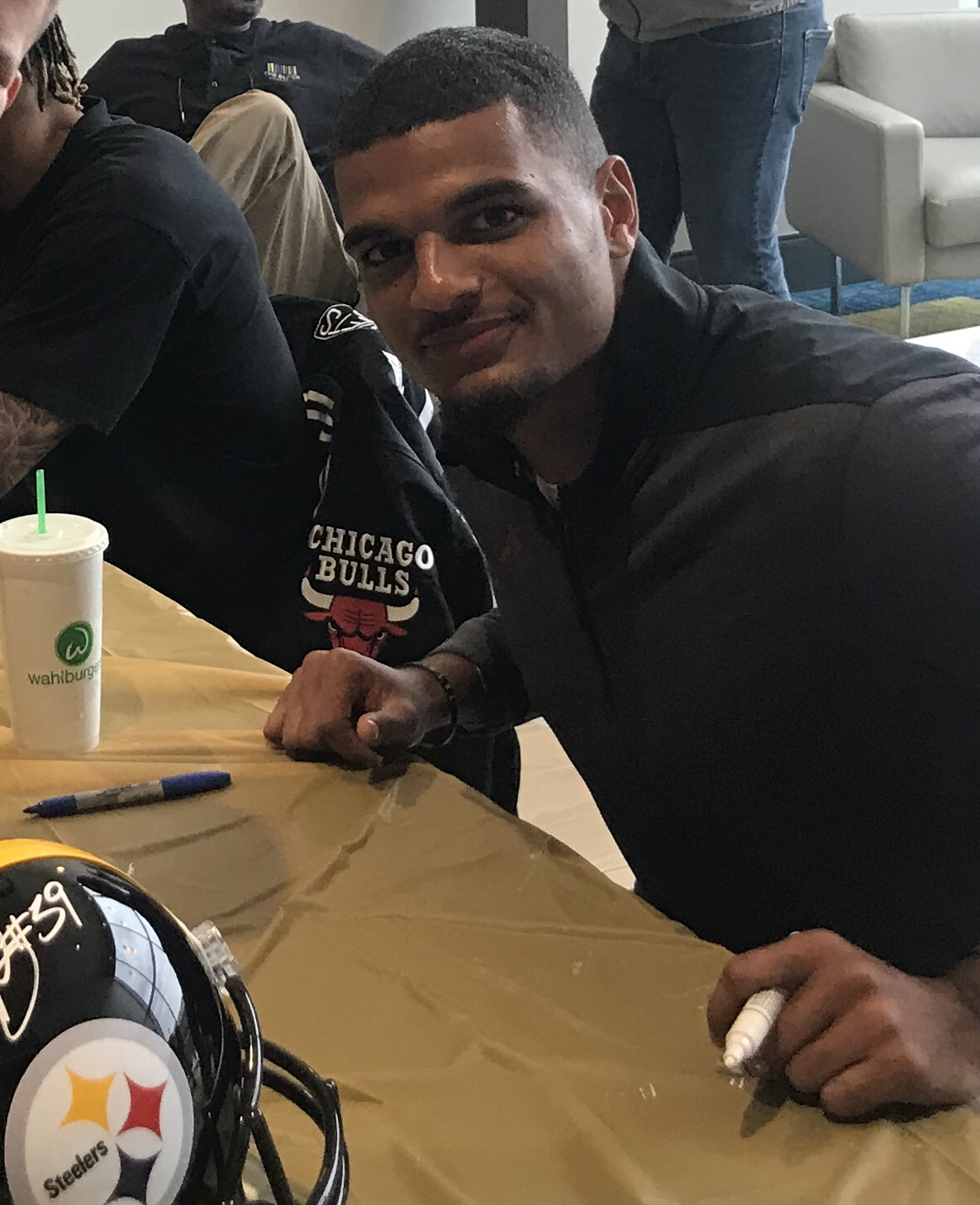 Fitzpatrick at his first signing as a Pittsburgh Steeler, in November of 2019. This photo was taken on November, 29 2019, On the weekend of the Steelers bye week. The phot was taken Ben Pekarcik